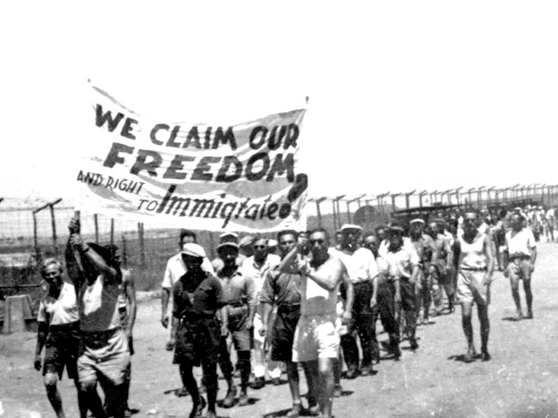 Demonstration against the British deportation.